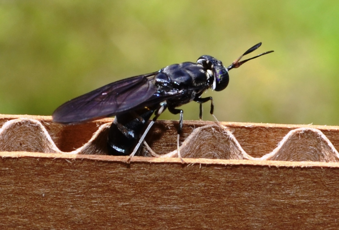 Black soldier fly (BSF) female depositing eggs in corrugated cardboard